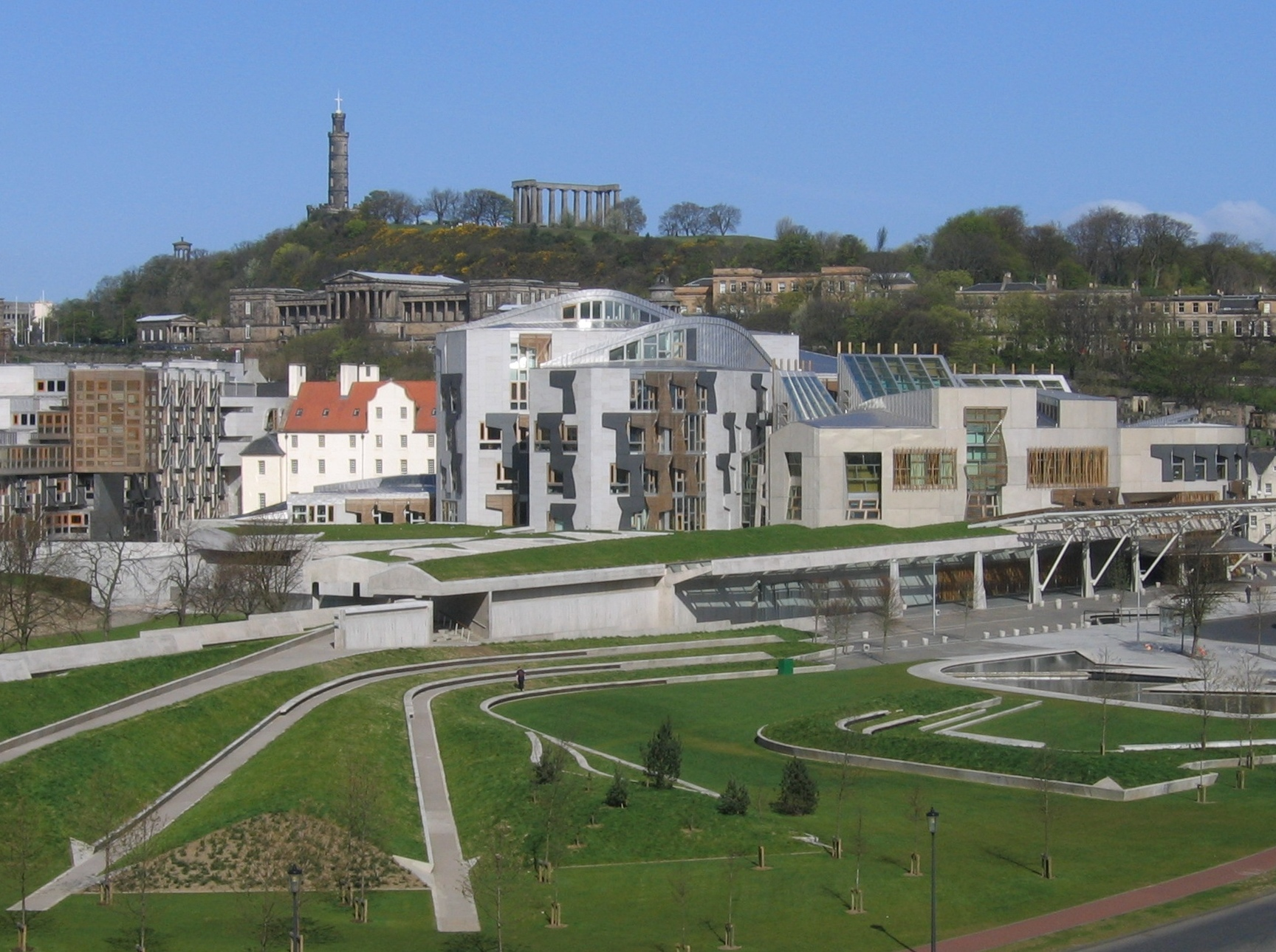 crop of Image:Edinburgh Scottish Parliament01 2006-04-29.jpg.